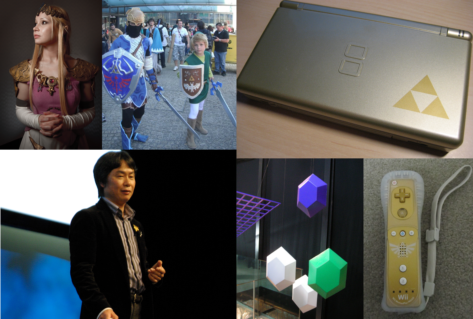 Montage of various Zelda images.